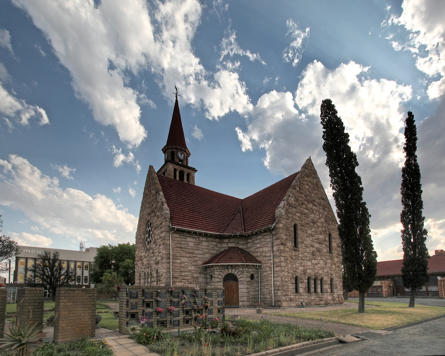 Dutch Reformed Church, Vereeniging This media shows a South African Protected Site with SAHRA file reference 9/2/277/0011.